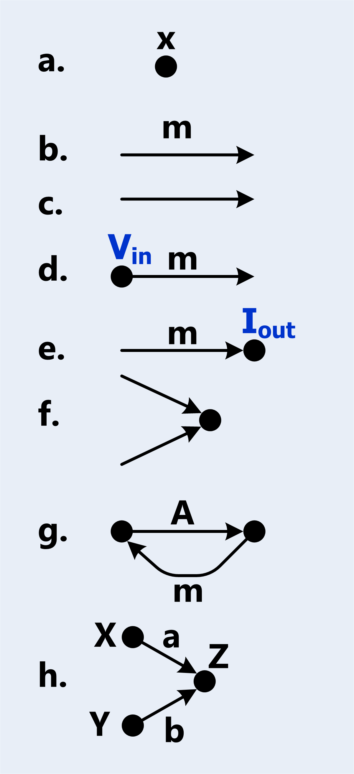 Elements and constructs of a signal flow graph. a) a node labeled x, b) a branch with a multiplicative gain of m, c) a branch with a multiplicative gain of one, d) an input node labeled Vin with an optional multiplicative gain of m, e) an output node labeled Iout with an optional multiplicative gain of m. f) addition, g) a loop with a loop gain of Am, h) a complex expression Z = c( aX + bY ).